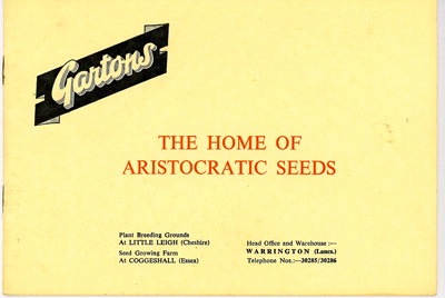 Front cover of literature produced by Gartons Limited